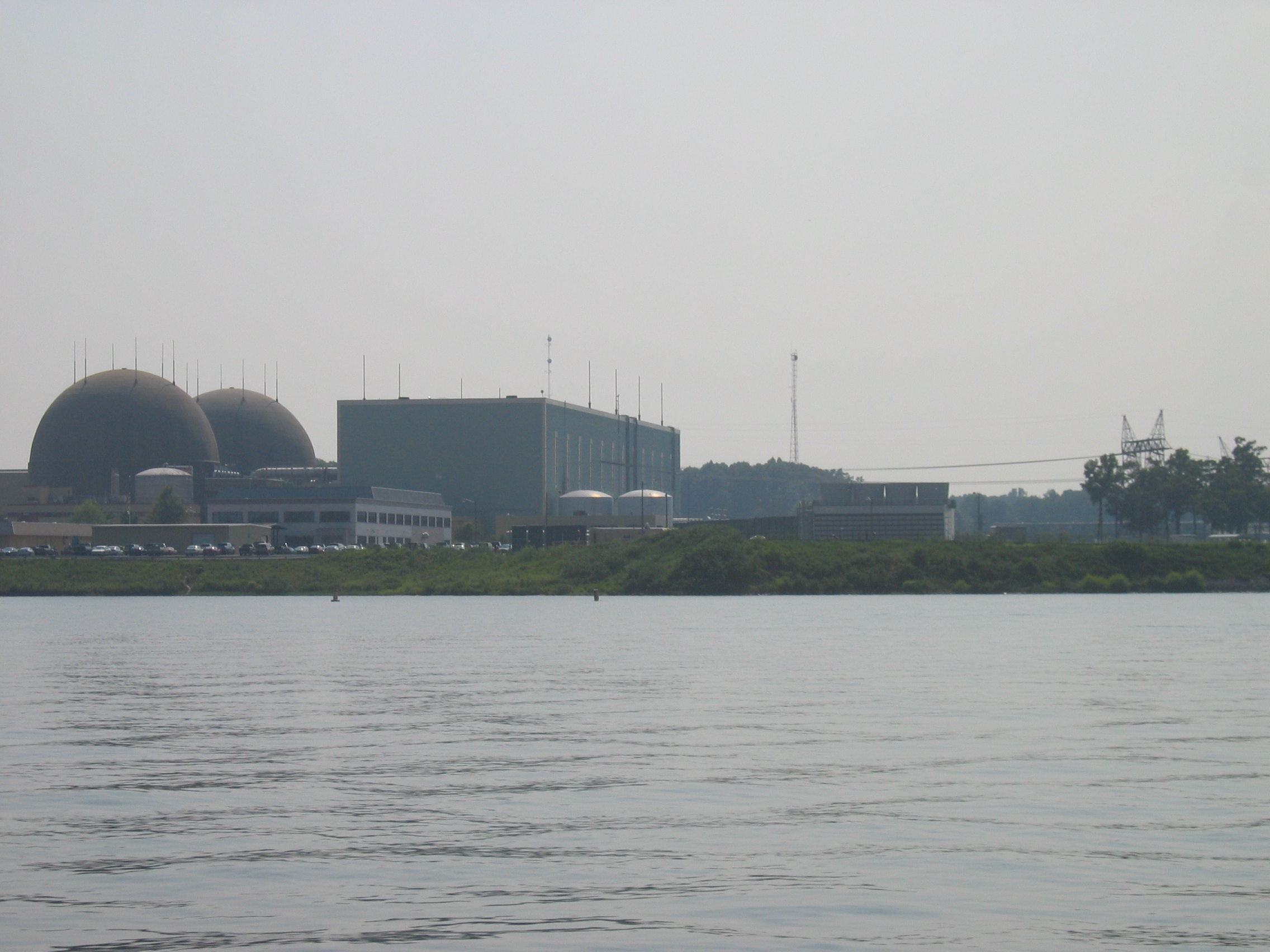 View of North Anna Nuclear Generating Station, Louisa County, Virginia. The cooling pond is in the foreground. North Anna uses a direct exchange "hot" lake. 38°03′26″N 77°47′44″W / 38.057327°N 77.79556°W / 38.057327; -77.79556. The North Anna plant uses direct exchange cooling into an artificial lake.